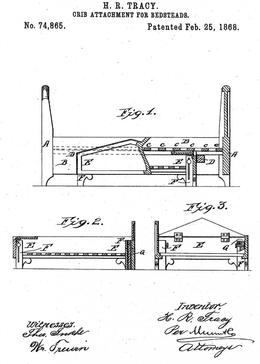 US patent 74,865 dated February 25, 1868 by HR Tracy